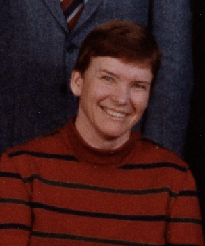 Format: Fotopositiv Dato / Date: 1982-83 Fotograf / Photographer: Ukjent Sted / Place: Trondheim Wikipedia: Liste over ordførere i Trondheim Eier / Owner Institution: Trondheim byarkiv, The Municipal Archives of Trondheim Arkivreferanse / Archive reference: Tor.H45 - Løse bilder - F9462 (utsnitt) Merknad: Utsnitt av gruppebilde